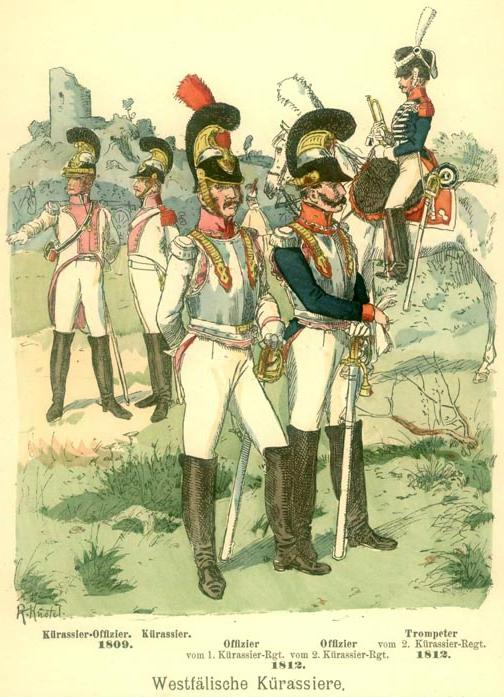 Uniform plate